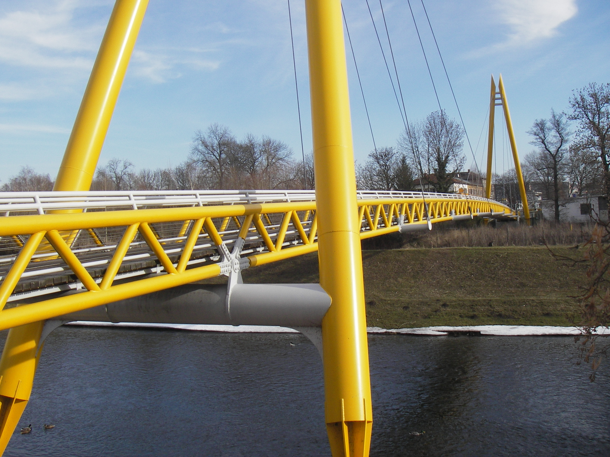 Stadtbahnbrücke, also called "Yellow Gate Bridge", connecting Untermhaus, a part of Gera, with the tram-line "1"